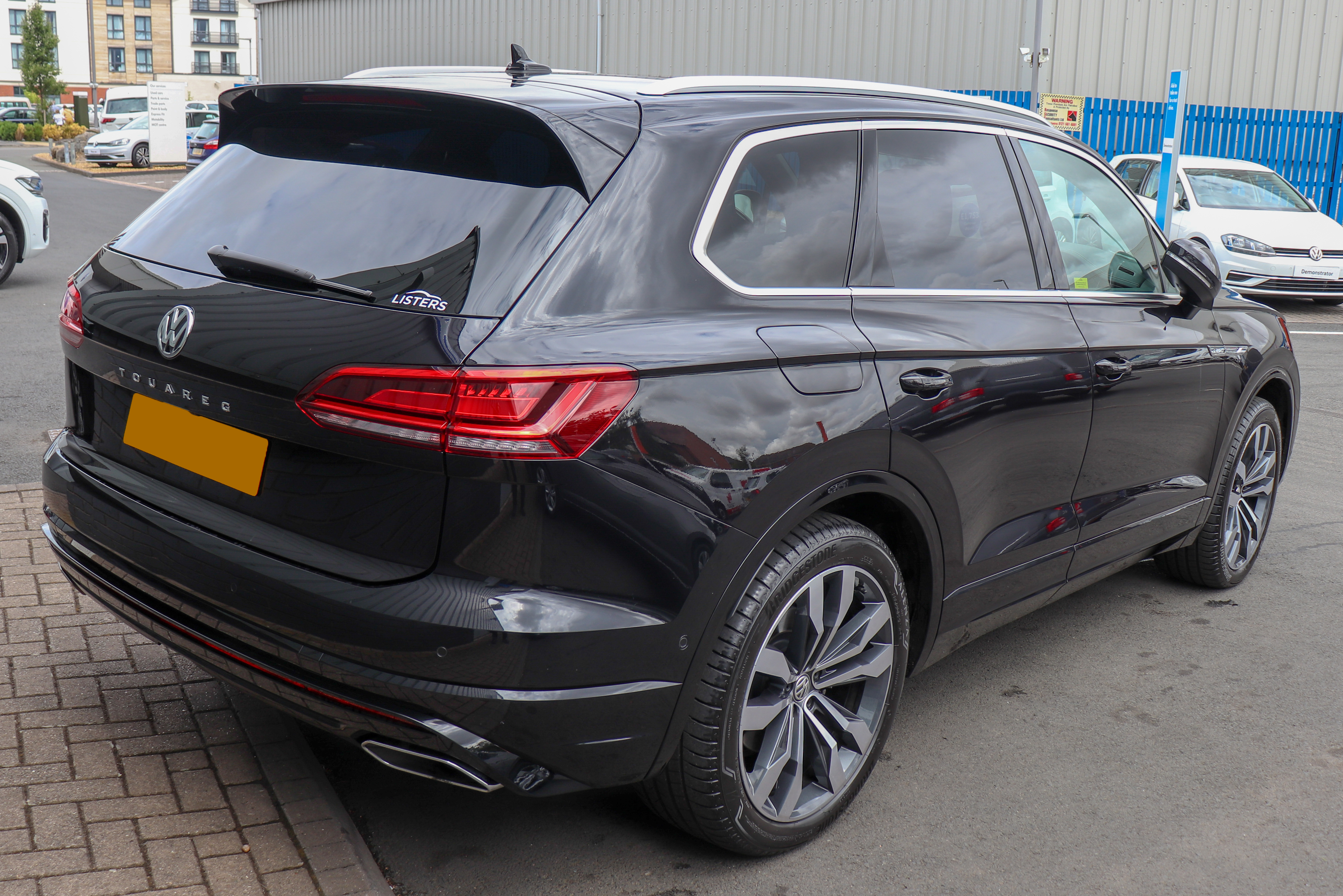 2018 Volkswagen Touareg V6 R-Line TDi Automatic 3.0 Rear Taken in Stratford-upon-Avon